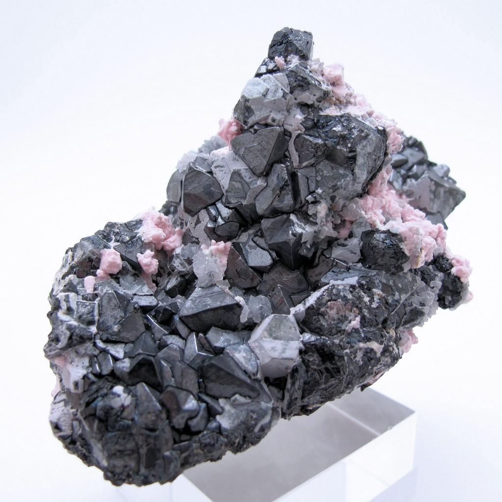 Alabandite, Rhodochrosite, Quartz (Size: 84 mm x 58 mm x 45 mm) Locality: Uchucchacua Mine, Oyon Province, Lima Department, Peru Original description: Group of octahedral {111}, metallic black color, alabandite crystals partially coated with pale pink rhodochrosite, accompanied with some crystallized quartz, from a find of September 2010 in the 300 level of the mine (895 m deep). It shows at least five spinel law twins, several of them visible in the photos. Size: 84 mm x 58 mm x 45 mm. Major crystal: 13 mm tall, 9 mm on edge. Weight: 214 g. The specimens from this pocket represent the highest quality ever seen for this species (Ref.: The Mineralogical Record, January-February 2011, vol. 42/1, page 73).